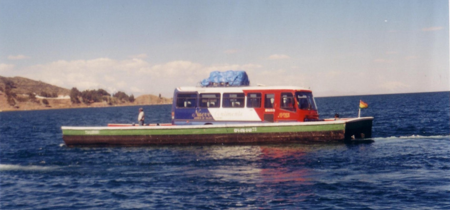 A ferry carries a bus, Tiquina Straits. Lake Titicaca